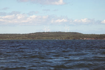 Knutsbodaberget in Lemland county with 4 wind power generators about 500 kW each. Photograph by Henryk Kotowski